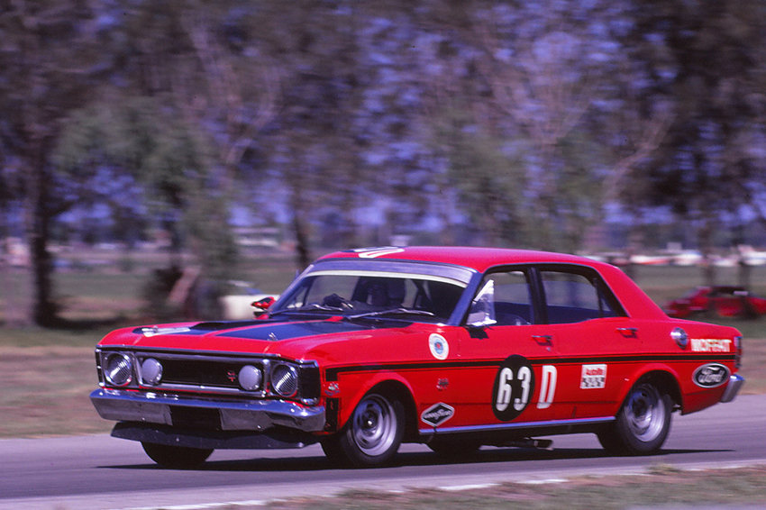 Allan Moffat in the works Ford XW Falcon GTHO at Surfers Paradise International Raceway, 1 November 1970. Moffat won the 1970 Rothmans 250 Production Classic on that day.Surfers Paradise International Raceway was located in Carrara, Gold Coast, Queensland, Australia.